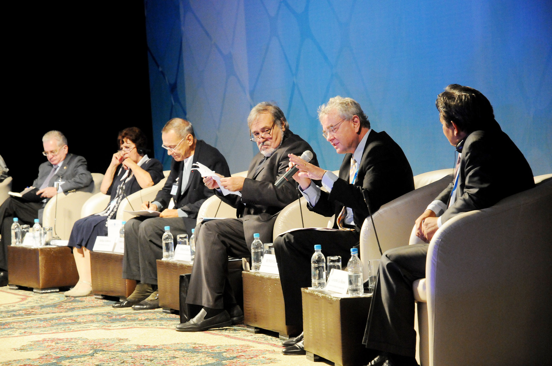 Photo of the participants of the round table: "Traditional value systems in postmodern culture"